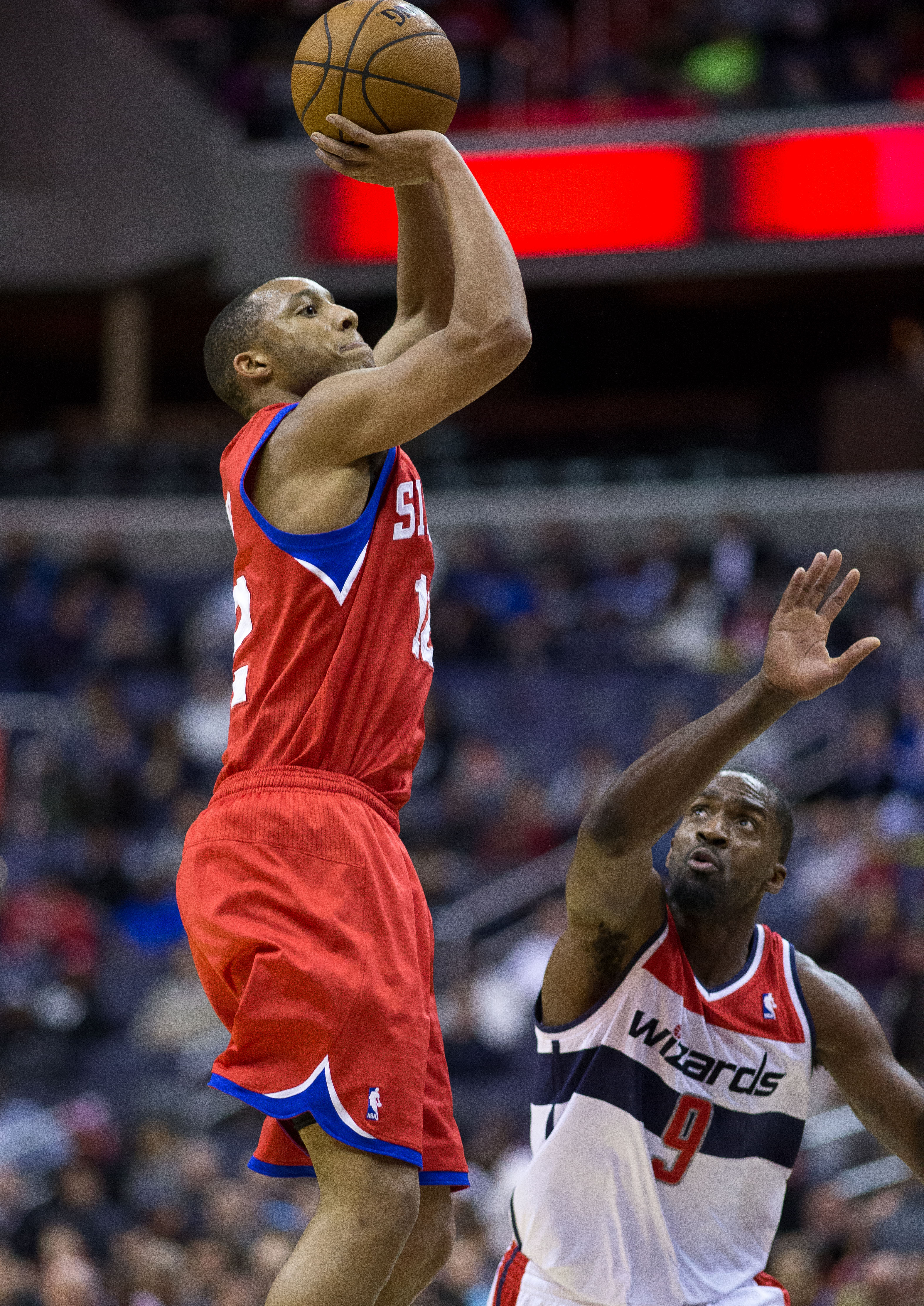 Philadelphia 76ers at Washington Wizards March 3, 2013